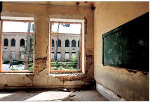 Class room of Dar ul-Funun